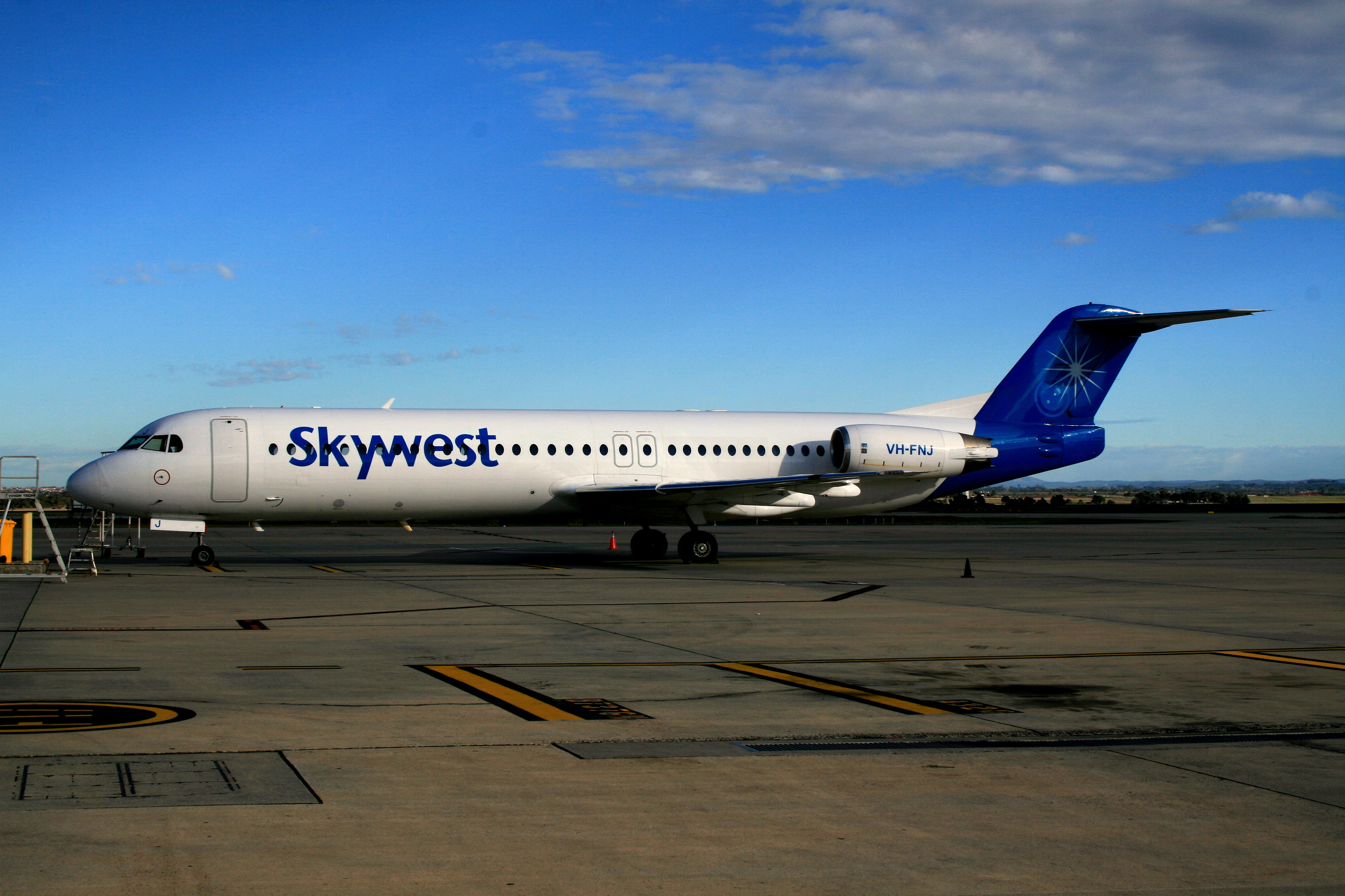 One of Skywest Airlines' Fokker 100s at Melbourne Airport, waiting to depart on a now-discontinued return service to Perth. Digital photo of VH-FNJ taken by YSSYguy on 6 July 2008 and uploaded for use in the Skywest Airlines article.